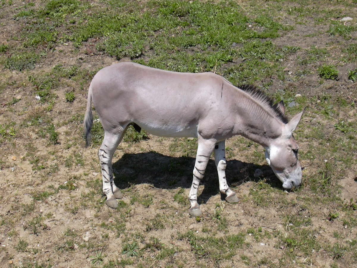 Somali_wild_ass in Zoo Ústí nad Labem, Czechia